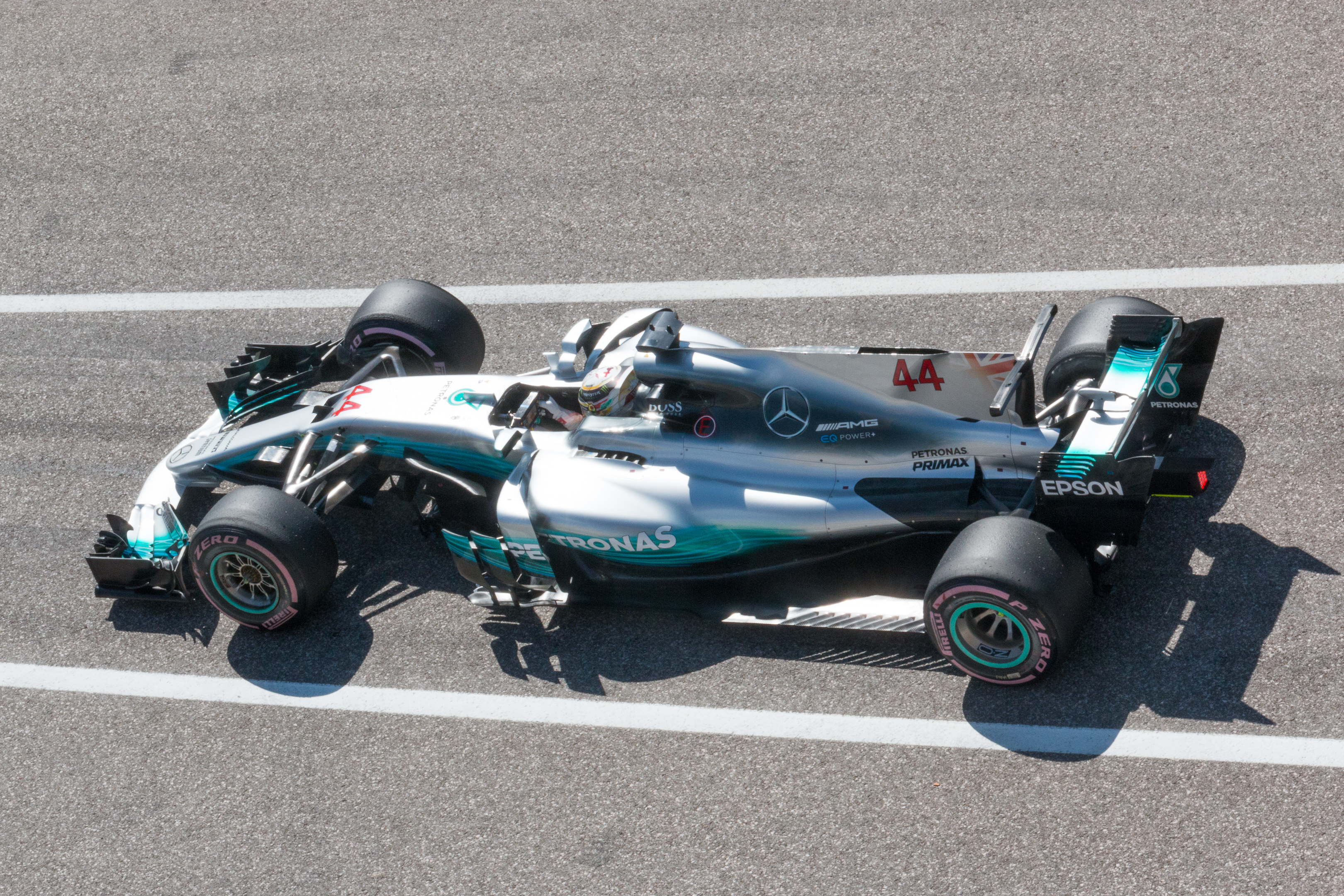 USGP Austin Oct 2017